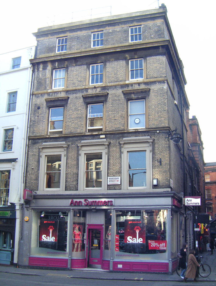 Ann Summers shop, 79 Wardour Street, London. Rosy Wilde gallery opened above the shop in 2006.